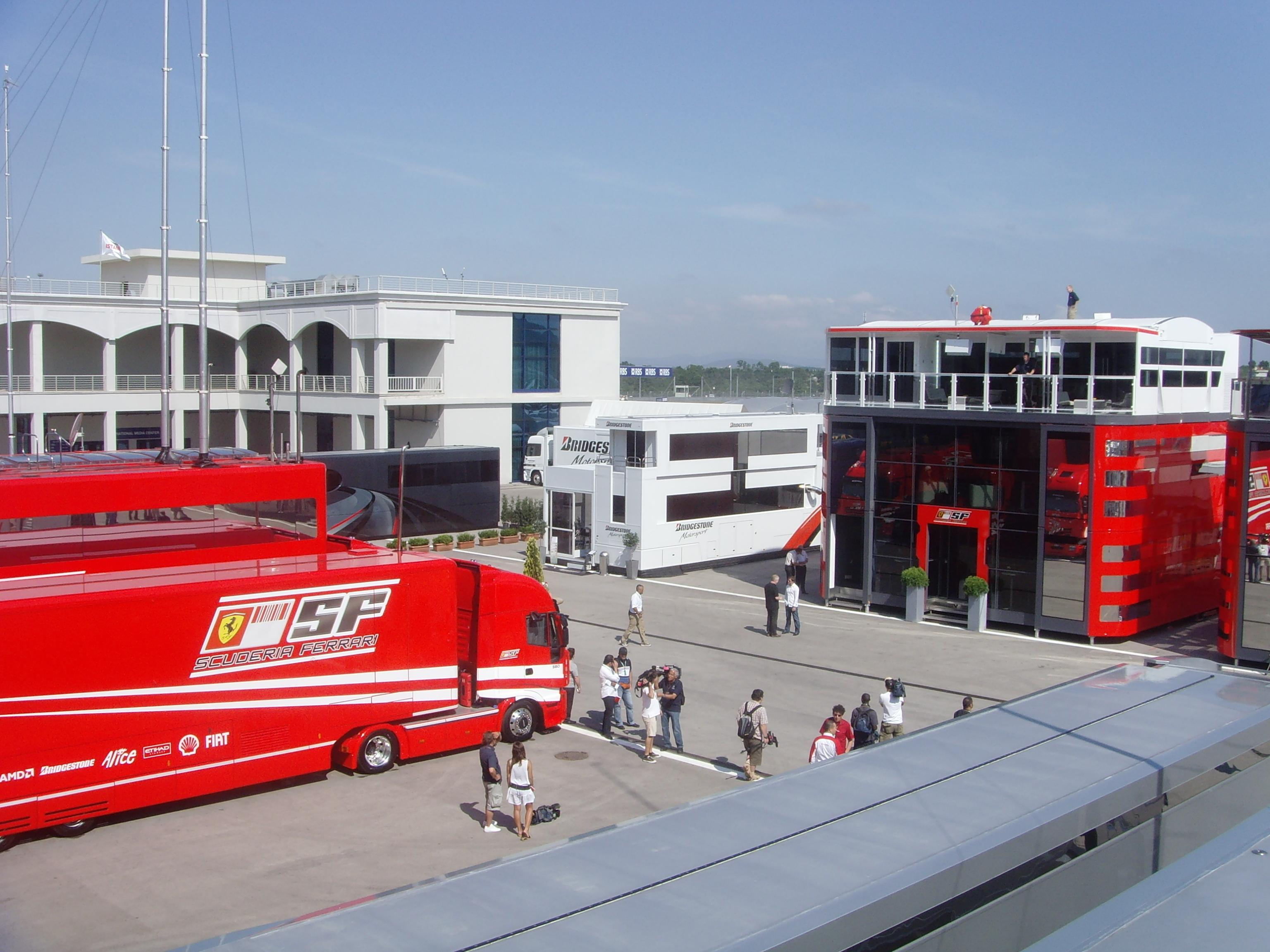 Scuderia Ferrari truck and motorhome on Istanbul Park's paddock during 2009 Turkish Grand Prix weekend.